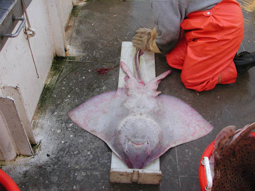 Barndoor skate (Dipturus laevis) caught during the 2001 Monkfish Research Survey (NMFS/NEFSC)